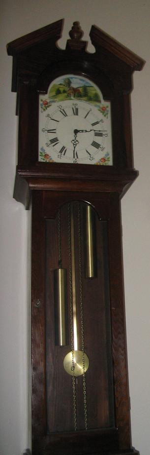 Photo by Quadell